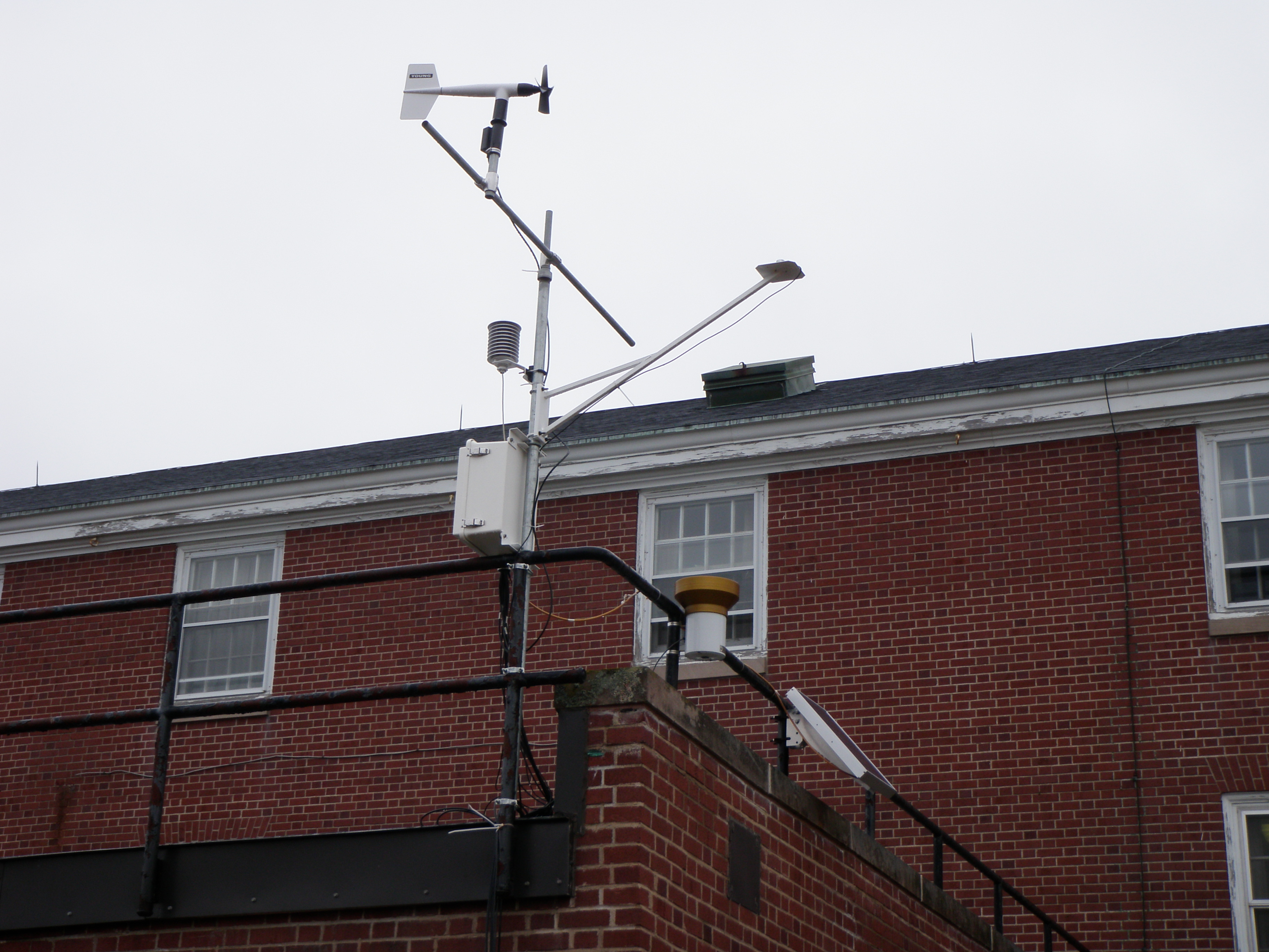 St.FX weatherstation picture